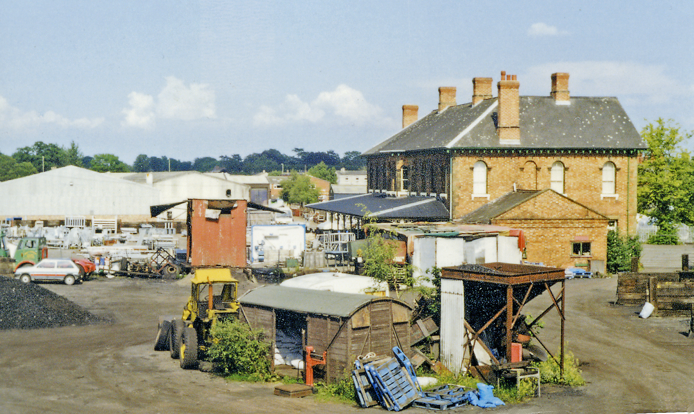 Ellesmere: former station, 1997. View eastward, towards Whitchurch: ex-Cambrian Railway Whitchurch - Oswestry - Welshpool - Machynlleth - Aberystwyth/Pwllheli main line, closed completely 18/1/65 Whitchurch - Buttington, except that goods continued from Whitchurch to Ellesmere until 29/3/65; westward was the ex-Cambrian branch to Wrexham (Central), closed 8/9/62. (By 1997 the only railway relic visible, other than the main building, seems to be a wagon body).